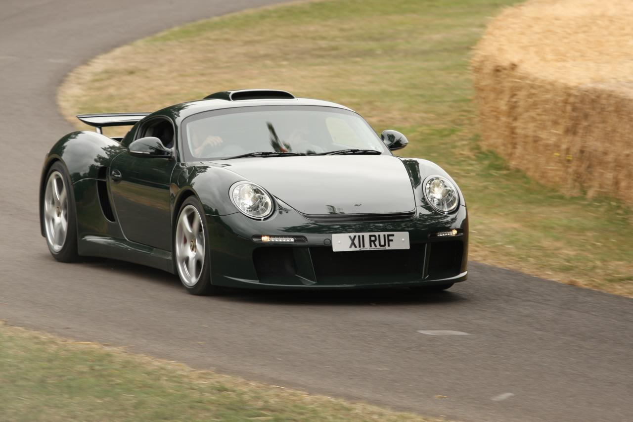 Goodwood festival of speed 2010